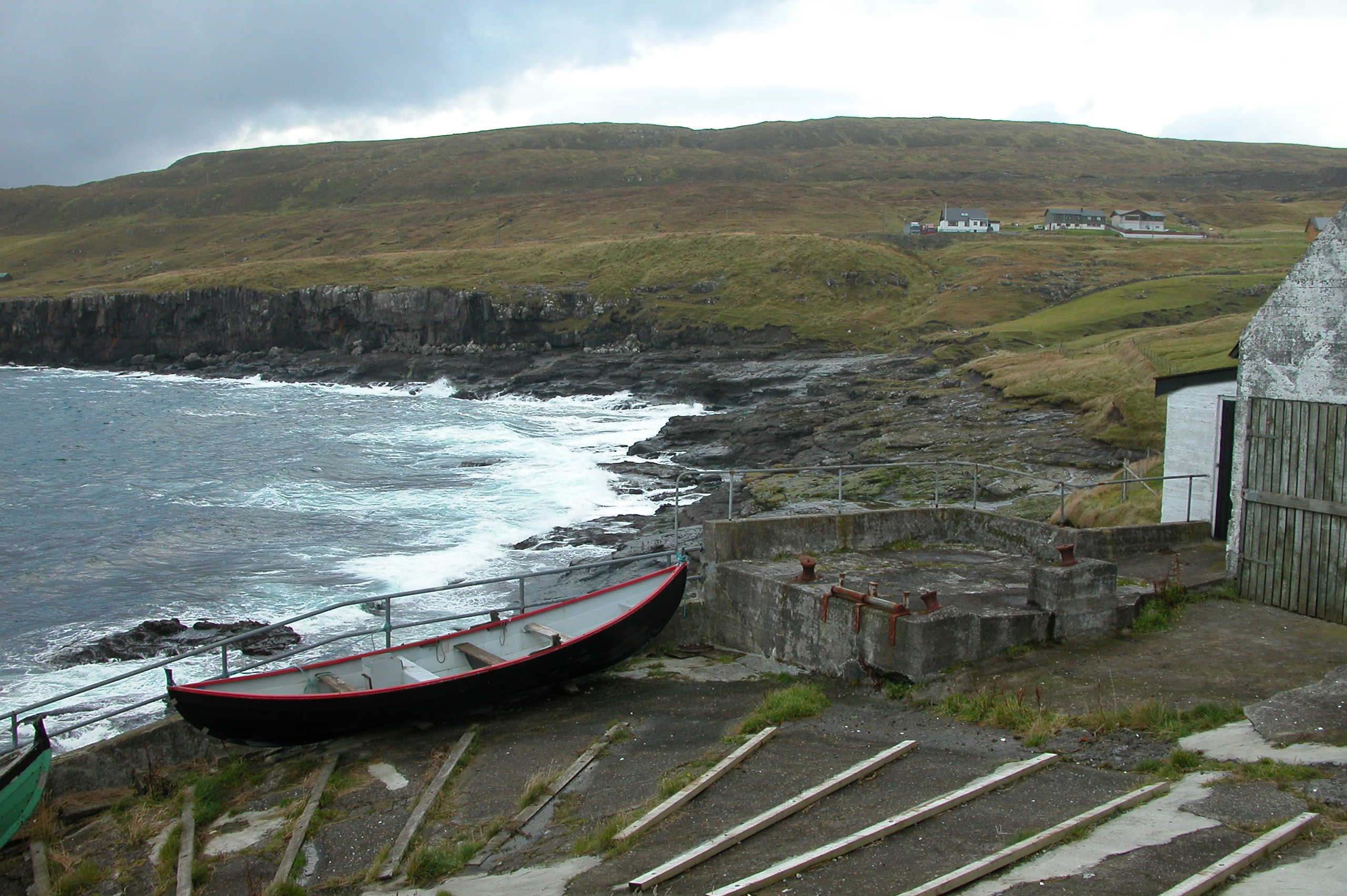 Faroe boat in Rituvík, Eysturoy, Faroe Islands